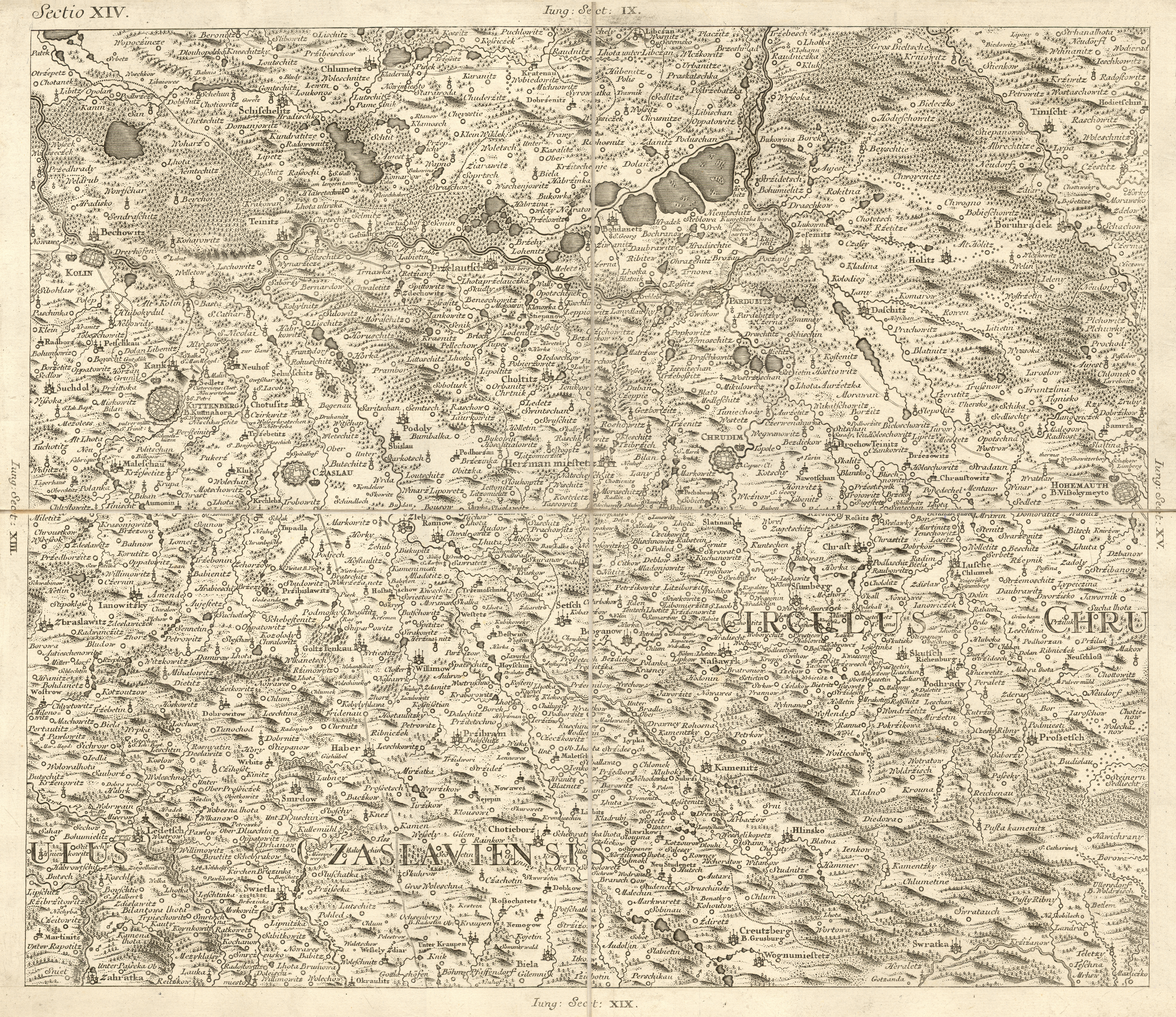 Müller's map of Bohemia.